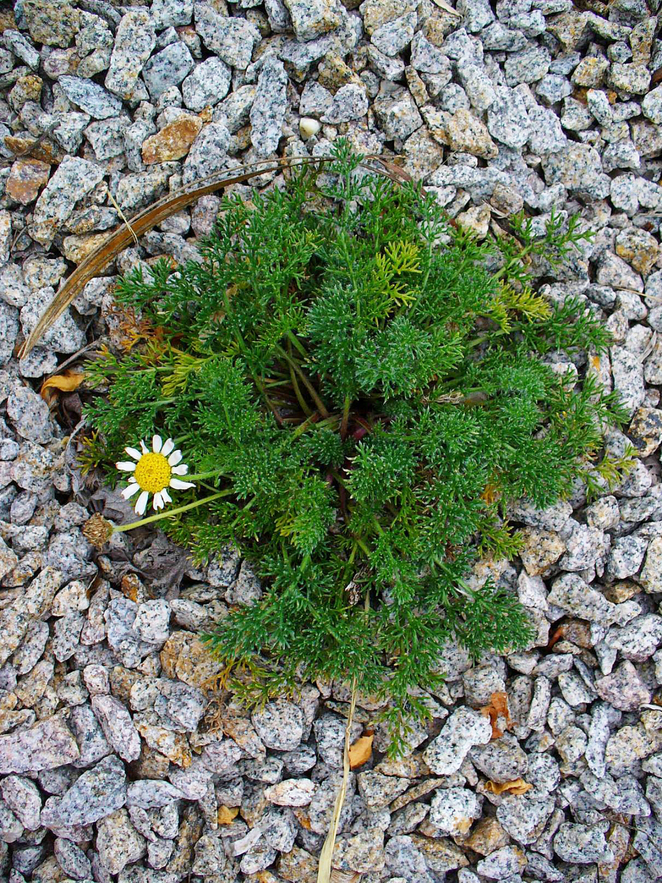 Anthemis arvensis, Asteraceae, Corn Chamomile, Mayweed, Scentless Chamomile, habitus; Karlsruhe, Germany.